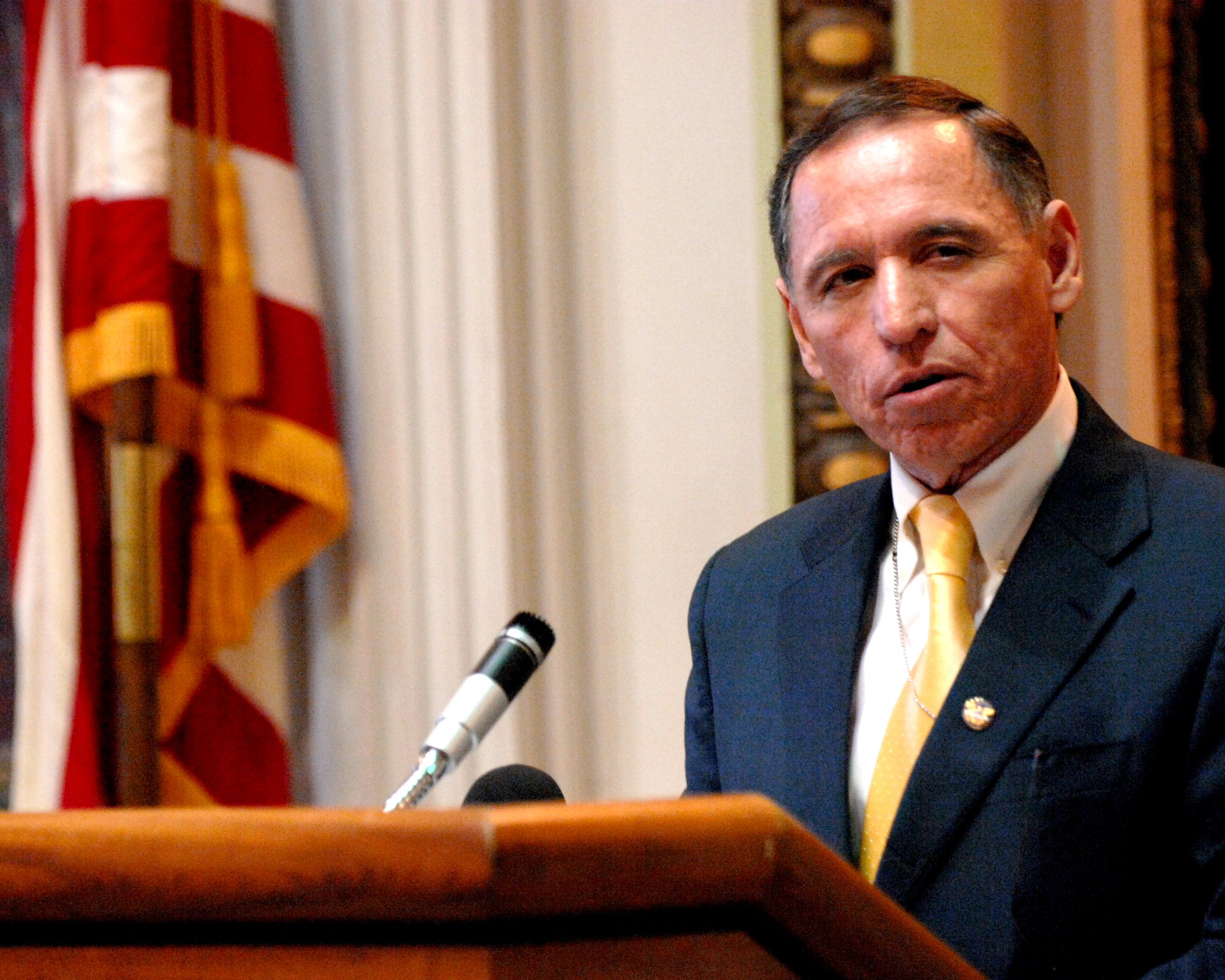 USA Freedom Corps Director Henry Lozano speaks during the USA Freedom Corps President's Volunteer Service Awards presentation May 16, 2008.